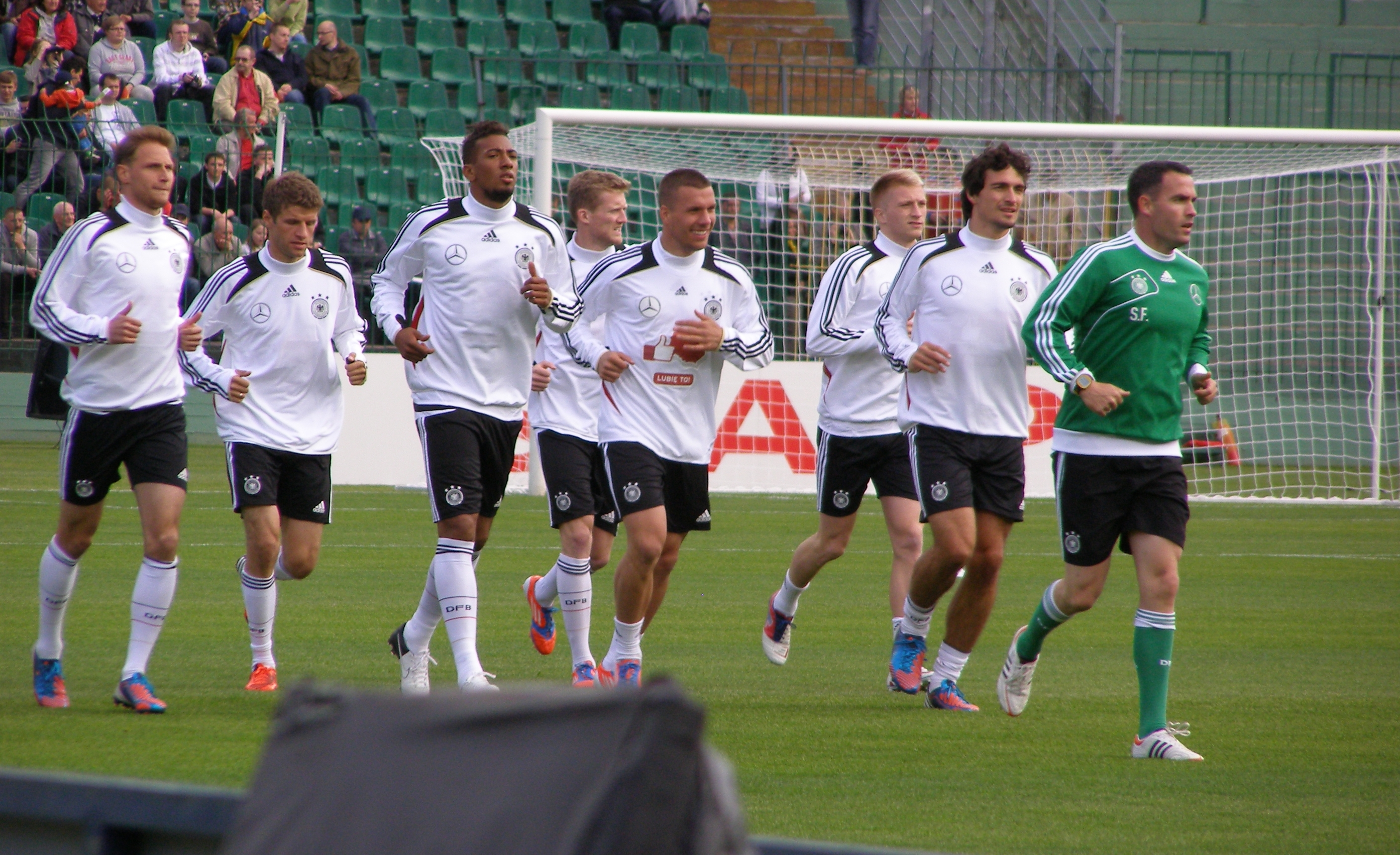 Gdańsk - open training of the Germany national team before Euro 2012 tournament at the MOSiR stadium - Per Mertesacker, Thomas Müller, Jérôme Boateng, André Schürrle, Lukas Podolski, Marco Reus, Mats Hummels